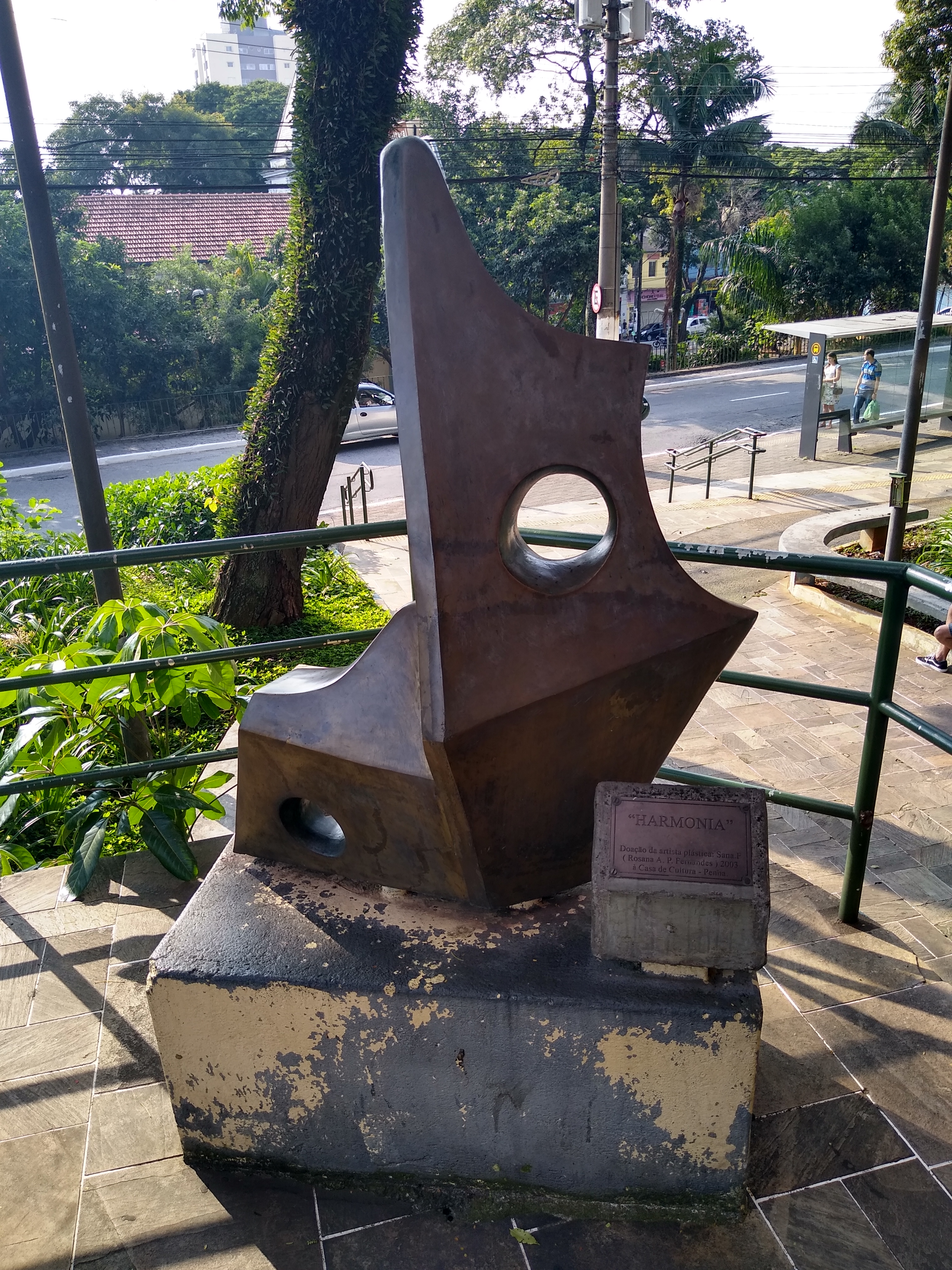 Escultura Harmônia doada ao Centro Cultural Penha em 2003